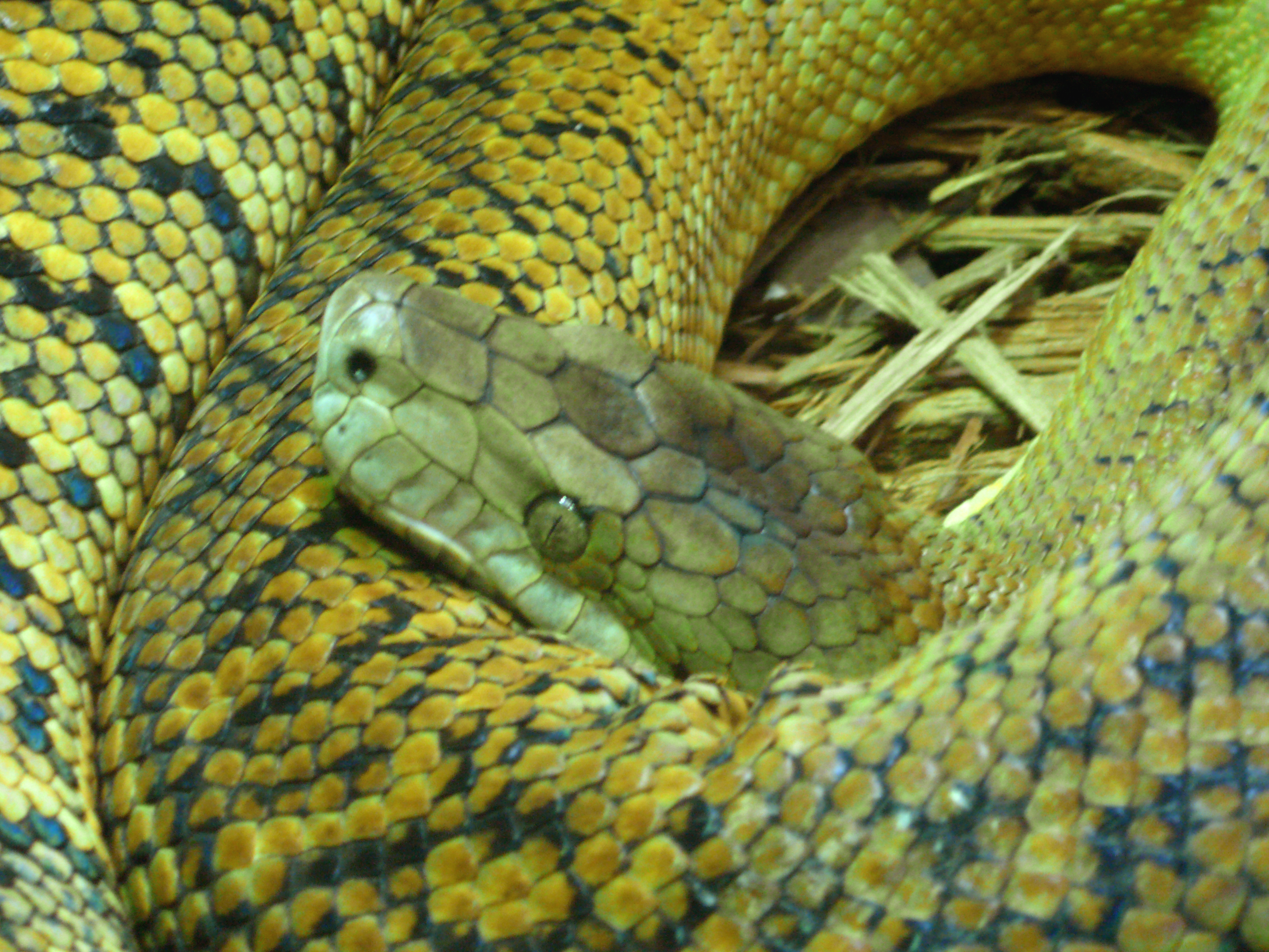 Jamaican boa (Epicrates subflavus)